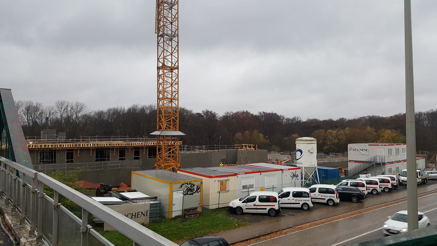 Futura pista de atletismo cubierta